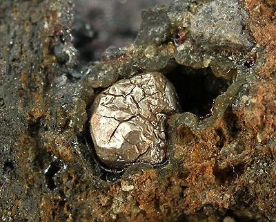 Moschellandsbergite Locality: Carolina Mine, Landsberg Mt. (Moschellandsberg Mt.), Obermoschel, Rhineland-Palatinate, Germany (Locality at ) Size: 6.0 x 4.8 x 4.0 cm. A sharp 4mm crystal on matrix from this famous find. No doubt other species are on the matrix as well, but this moschellandsbergite crystal is sharply and nicely displayed. I am told these were found in the 1800s but not identified as this new, rare mercury-silver species until 1938. Matrix pieces are exceptionally rare. Ex. Dr. Mark Feinglos Collection.